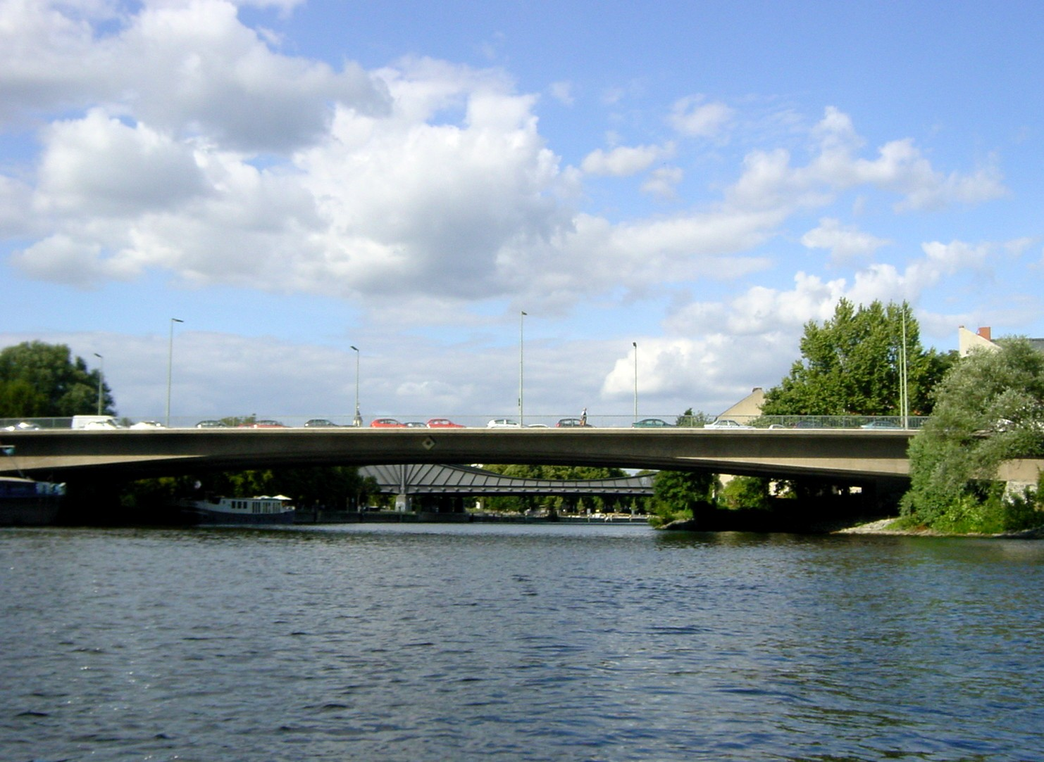 Dischinger bridge in Berlin-Spandau